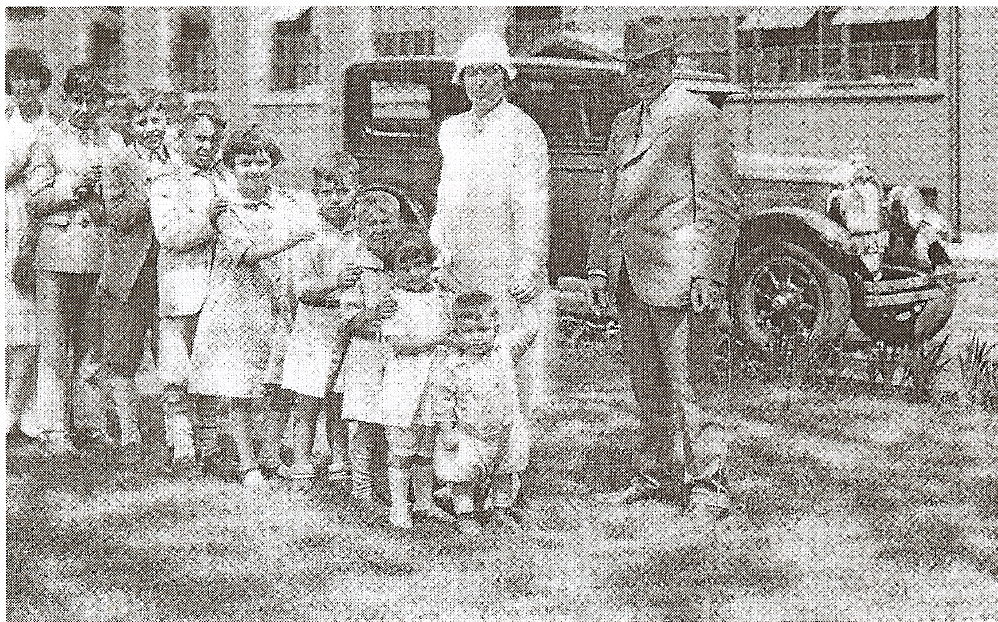 George and Katie pose with 9 children in front of car with Dayton Steel Wheels in front of the Dayton Steel Foundry